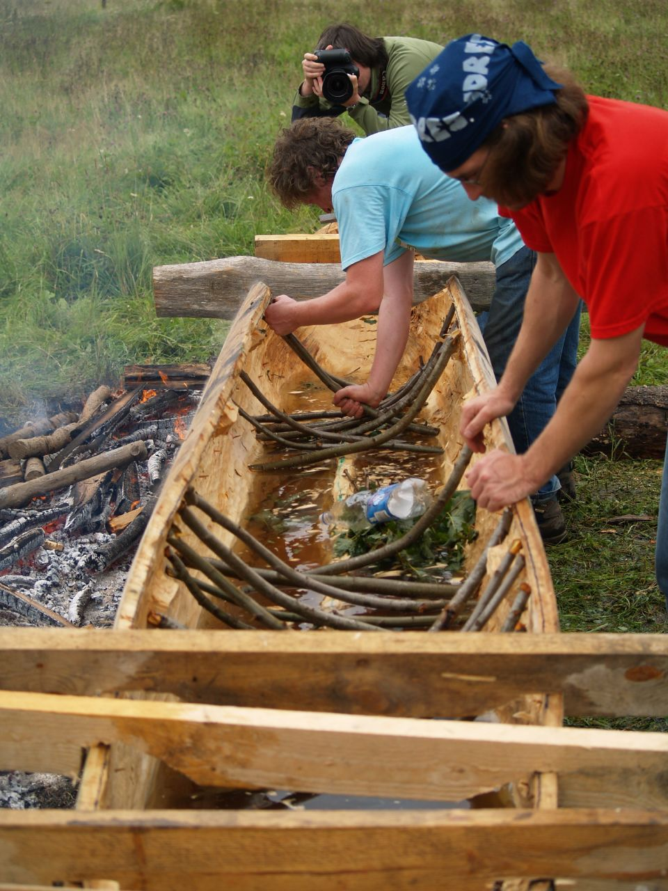 Building a Dugout Canoe at Basecamp Karuskose in Soomaa National Park, Estonia